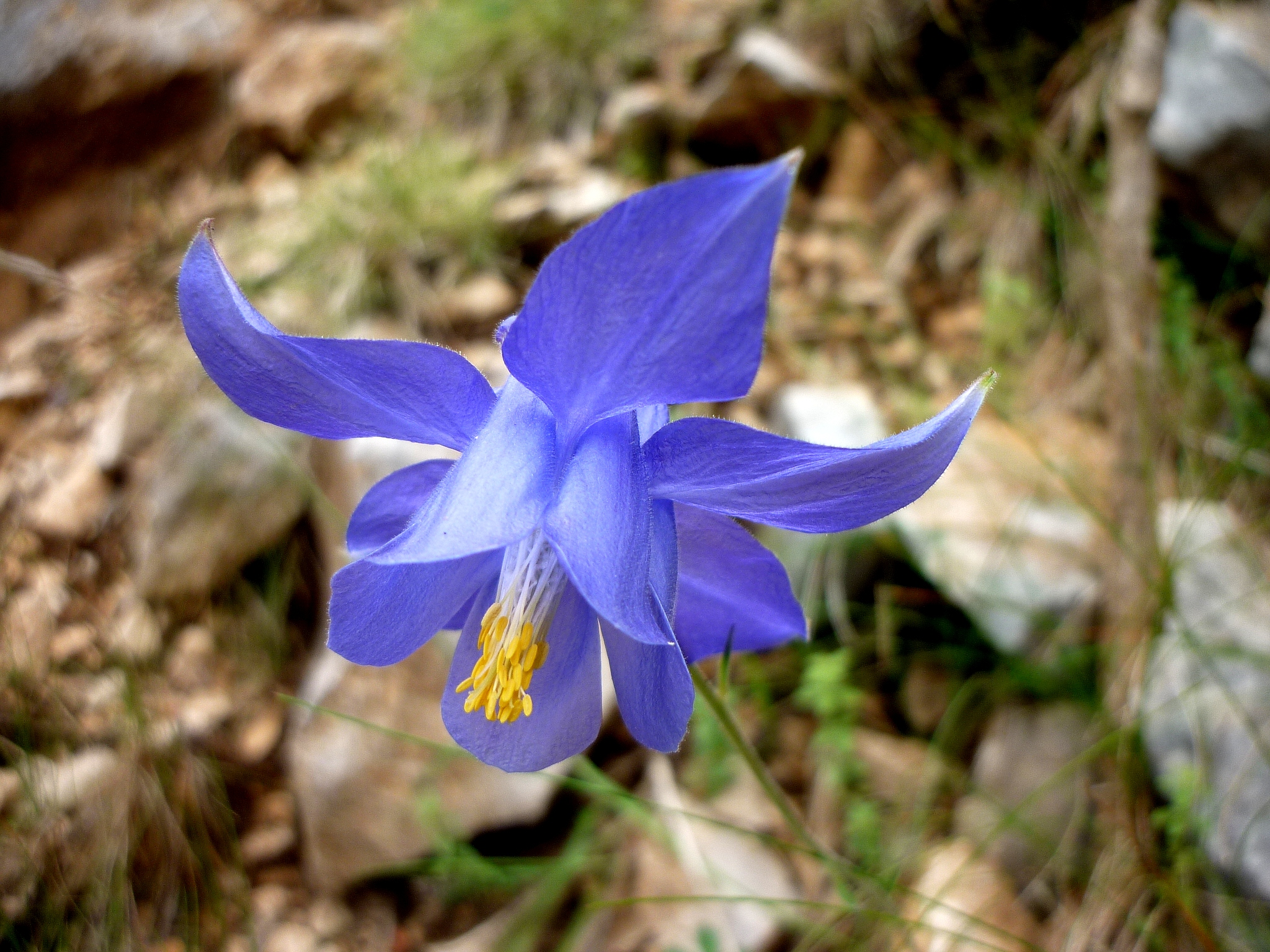 Aquilegia viscosa. In la Bòfia, la Coma i la Pedra (Solsonès - Catalunya). To 1.820 m. altitude